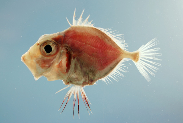 Cyttopsis rosea